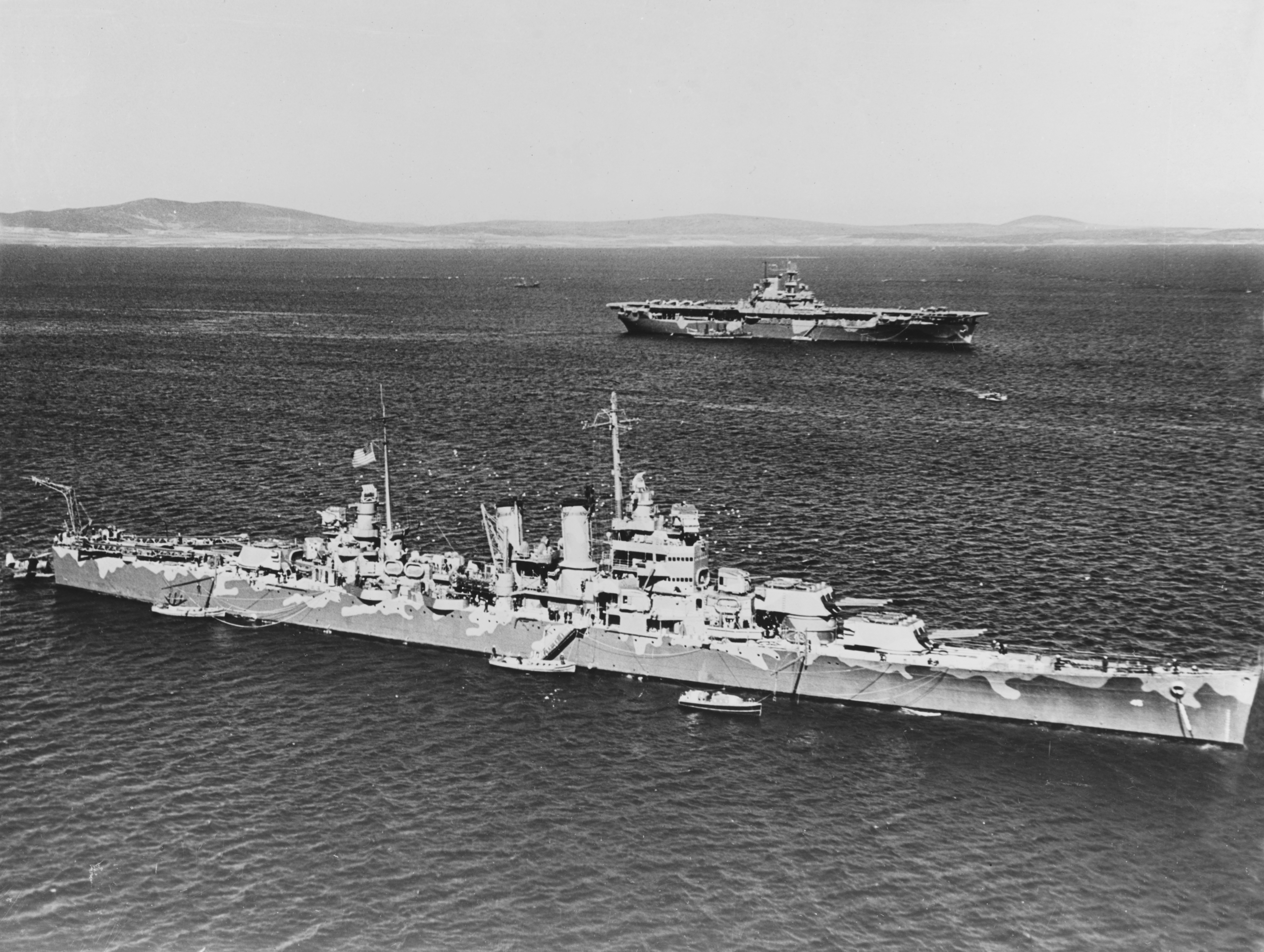 The U.S. Navy heavy cruiser USS Wichita (CA-45) at anchor in Scapa Flow, Scotland (UK), in April 1942. The aircraft carrier USS Wasp (CV-7) is in the background.